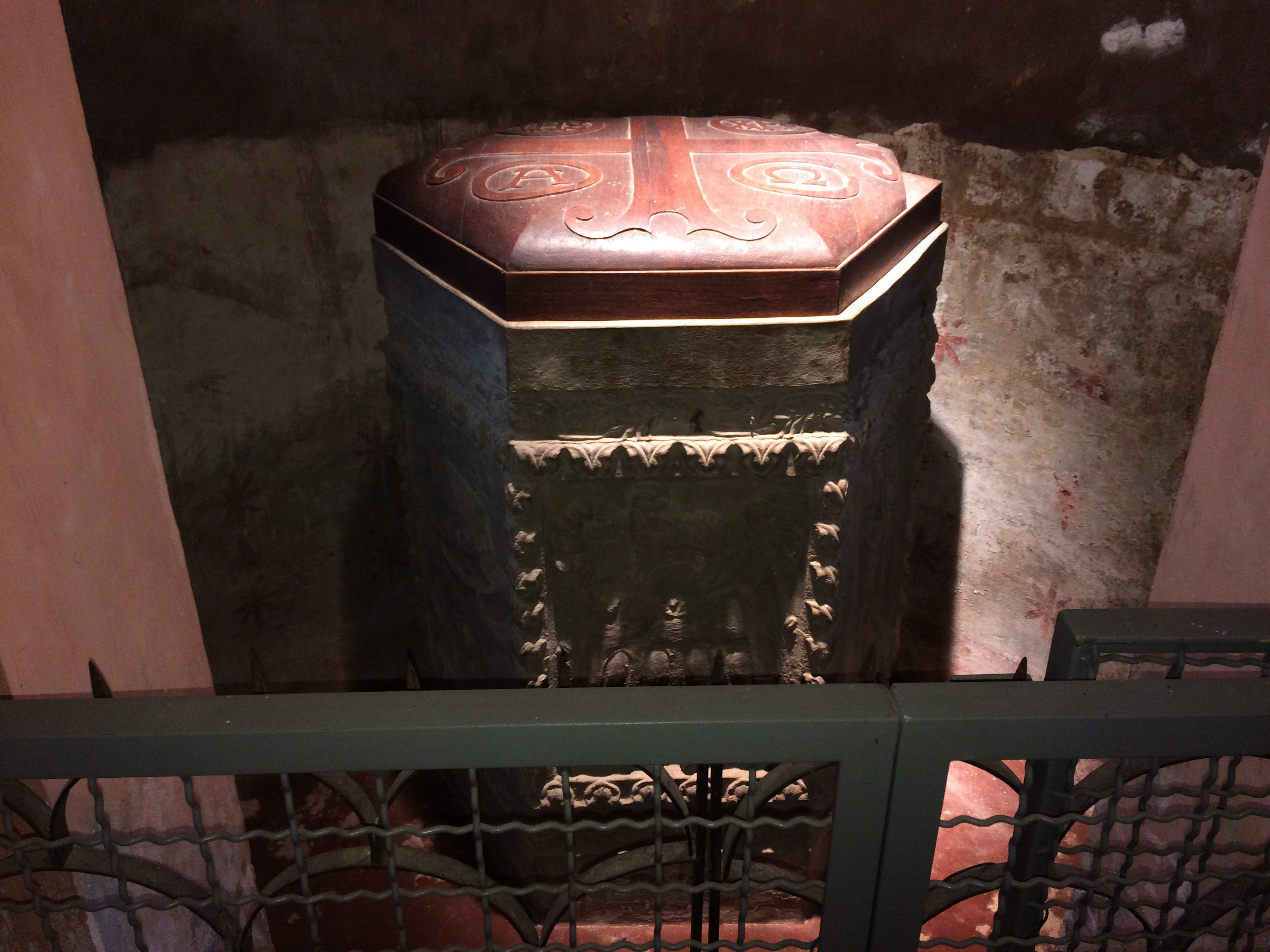 it is the fonte battesimale in Rivalta